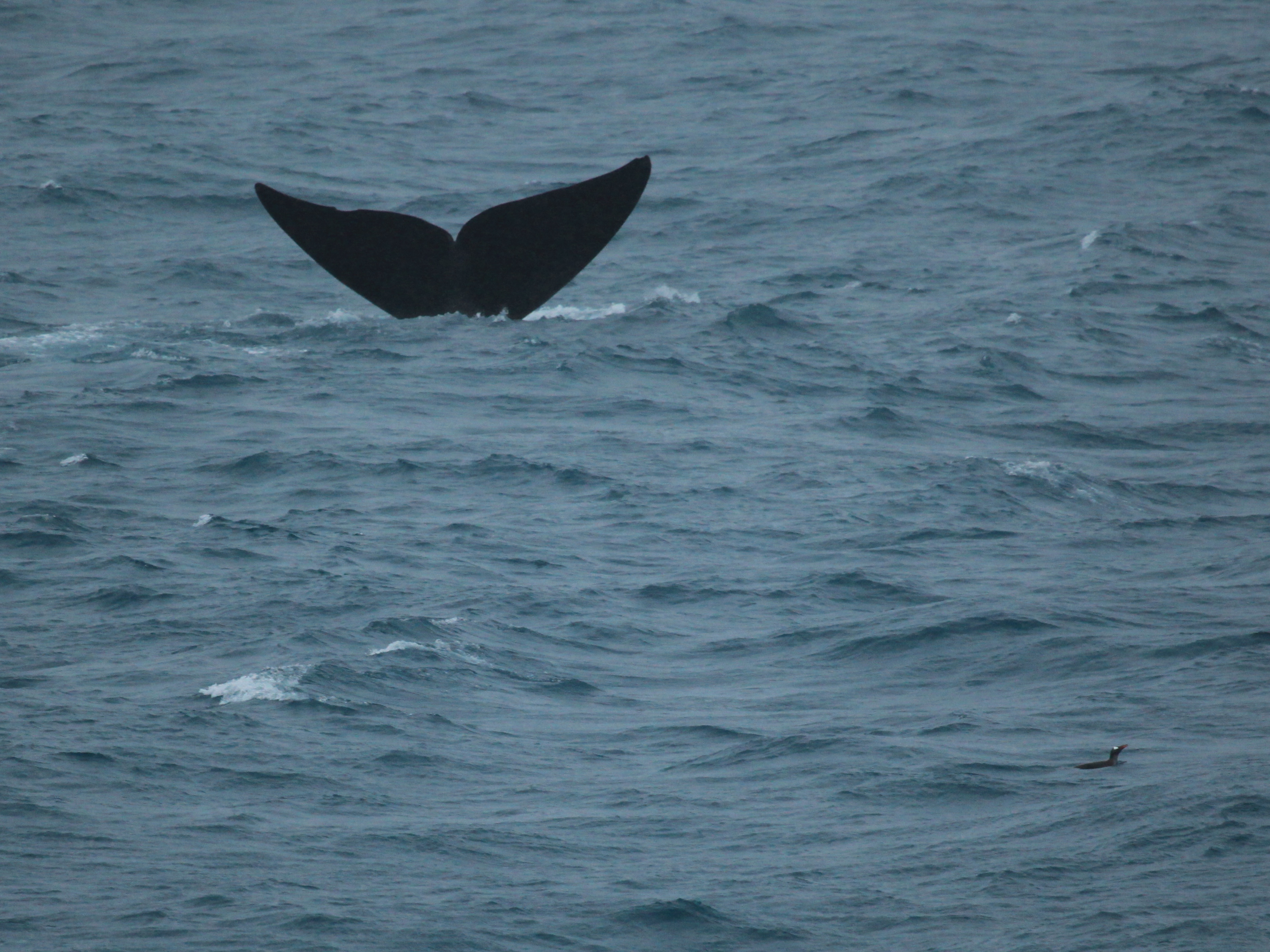 In the South Atlantic Ocean off the coast of South Georgia. Look for the Gentoo Penguin in the lower right of the photo.